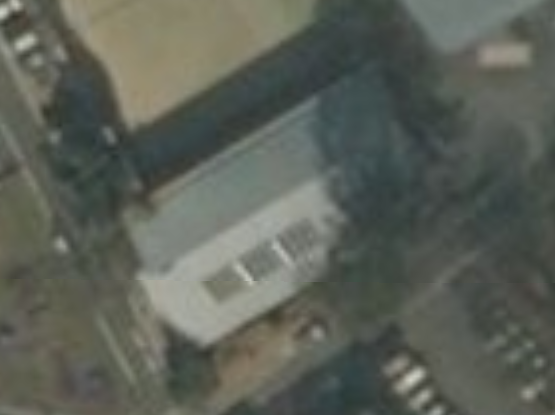 Satellite view